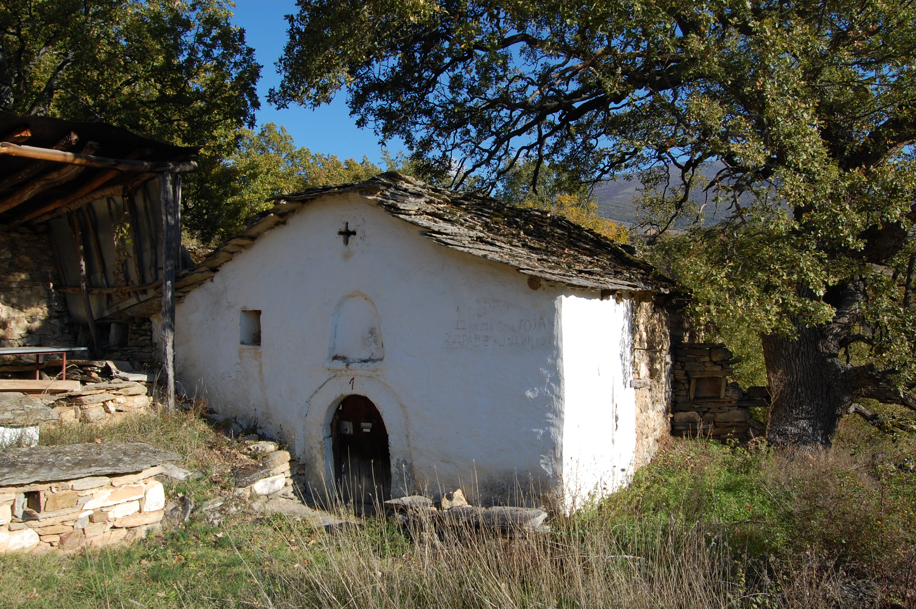 The church of Holly Ascencion in the village of Veprčani in Mariovo region, Macedonia